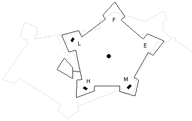 Citadel of Liege in 1671.